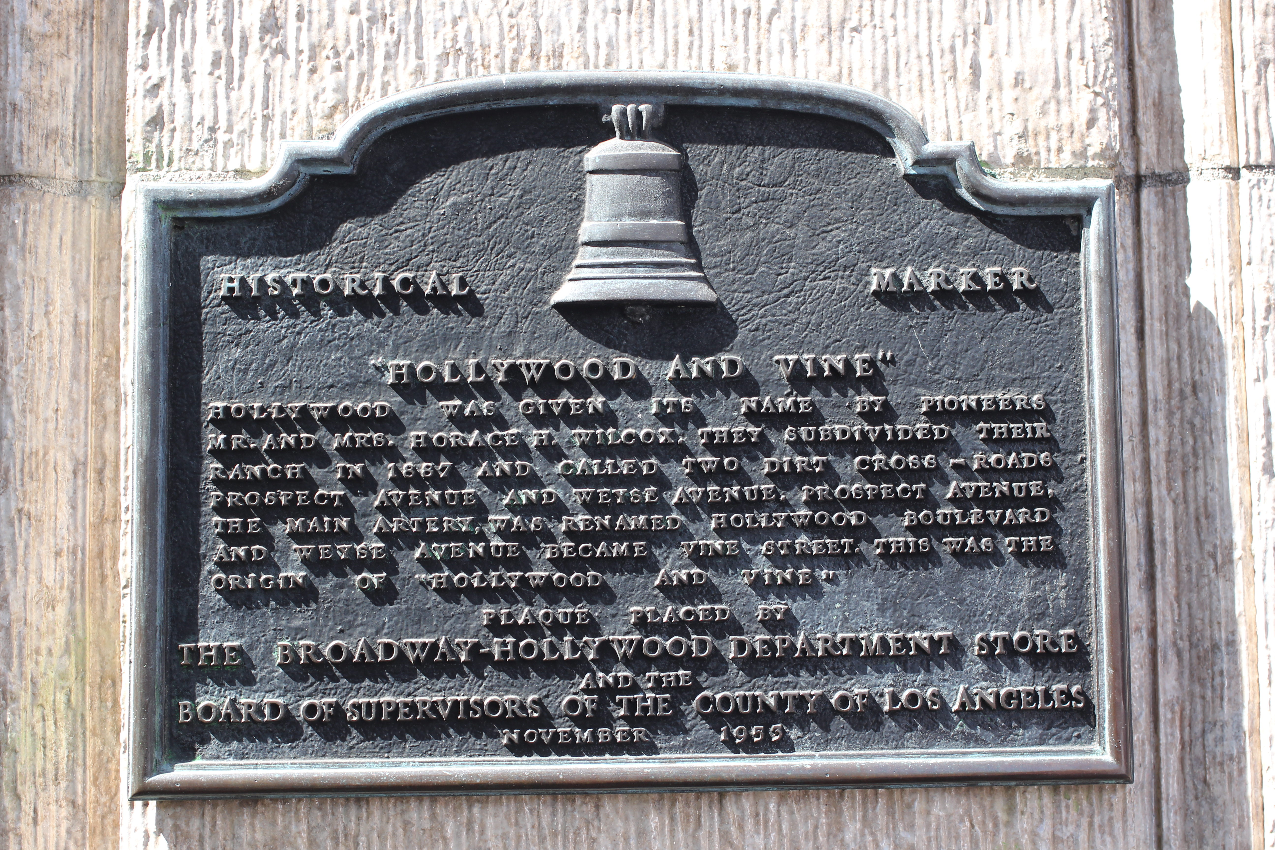 Broadway Hollywood Building at Hollywood and Vine